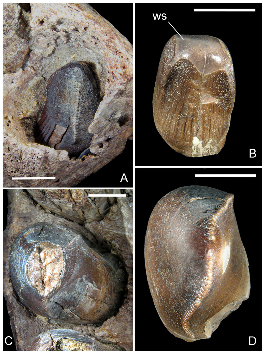 (A) replacement tooth pm1 in MHNT.PAL.2012.6.2; (B) mesial functional tooth MSNM V5775; (C) pm4 in MHNT.PAL.2012.6.2; (D) lateral tooth of indeterminate position MSNM V5773. Scale bars = 10 mm. Abbreviations: see text.